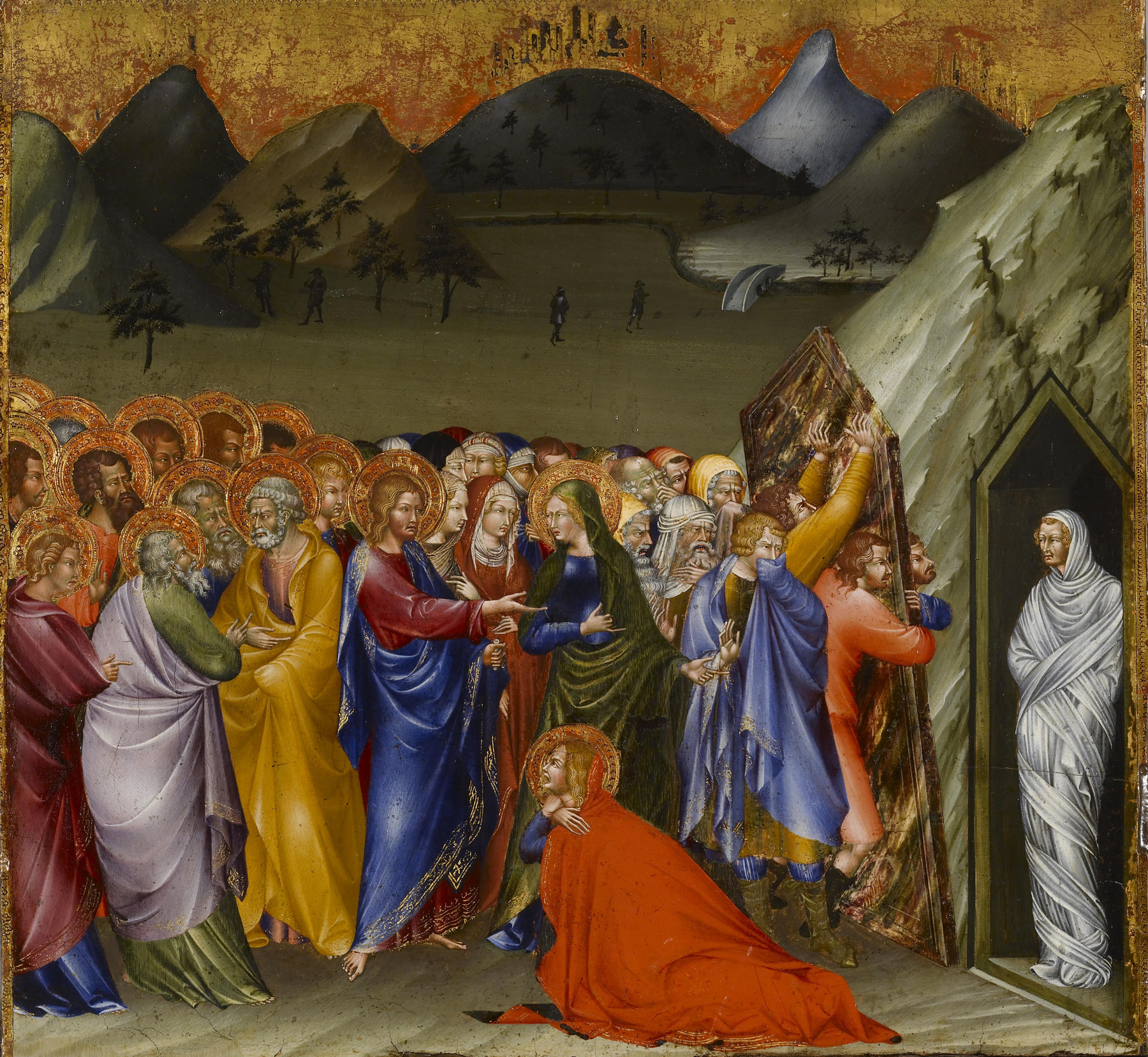 This is one of four early masterpieces by Giovanni di Paolo in the Walters. It was originally part of a predella (paintings on the base of an altarpiece) in the chapel of the Malavolti family in the church of San Domenico in Siena. The main altar panel, dated 1426 and depicting the Virgin and Child flanked by saints, is in Italy. The predella panels show, chronologically, the Resurrection of Lazarus, the Way to Calvary, the Descent from the Cross, and the Entombment. Originally, an image of the Crucifixion (now in Germany) would have been in the center. The resurrection of Lazarus was considered a model for the Resurrection of Christ, and the first panel thereby indicates what will happen after the Entombment. The scenes from Christ's Passion emphasize his humanity through his sufferings. The panels demonstrate Giovanni di Paolo's mastery of multi-figured, dramatic narrative scenes executed in the late-Gothic style. The agitated figures reveal extreme emotional states-from the onlookers overwhelmed by the stench from Lazarus's tomb to the desperate sorrow of the participants of the Passion scenes. Throughout his career, Giovanni di Paolo referred to the pictorial tradition of his native Siena that was rooted in Byzantine art and is characterized by, in particular, the gold ground and the stylized rock formations.